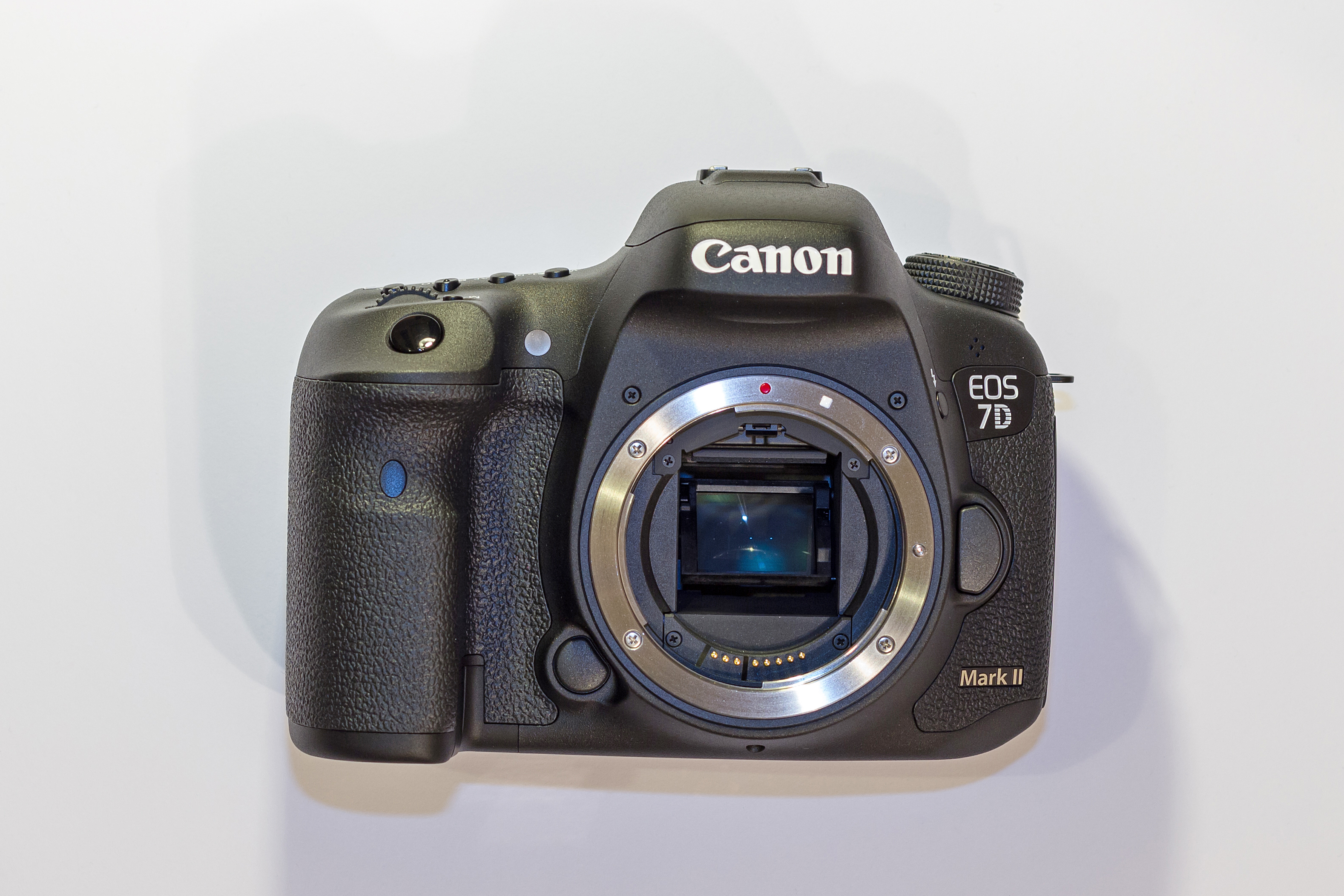 Canon EOS 7D Mark II (body without lens)